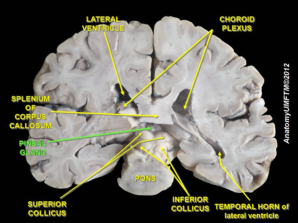 Anatomical dissection